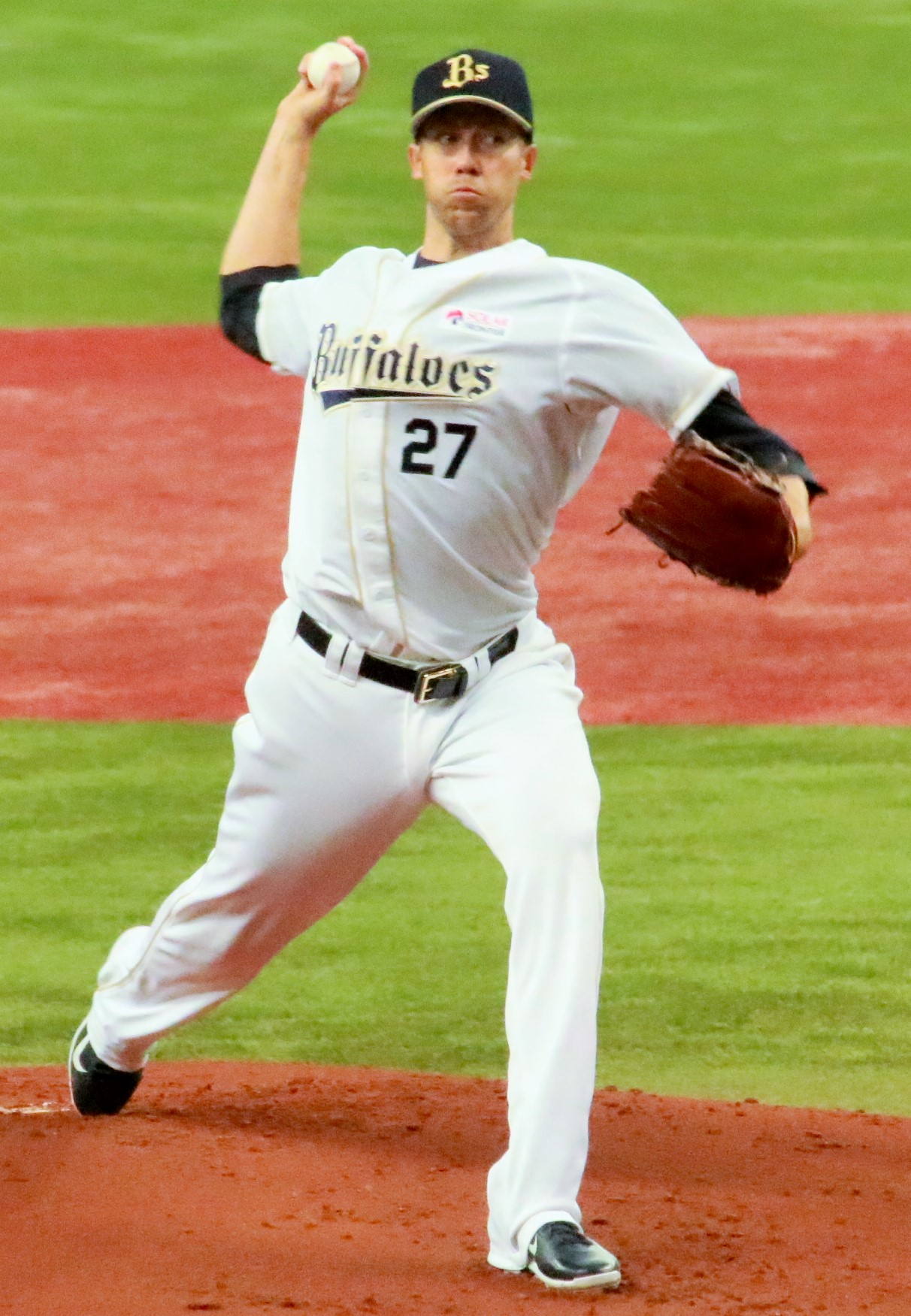 Bryan Bullington, pitcher of the Orix Buffaloes, at Osaka Dome.